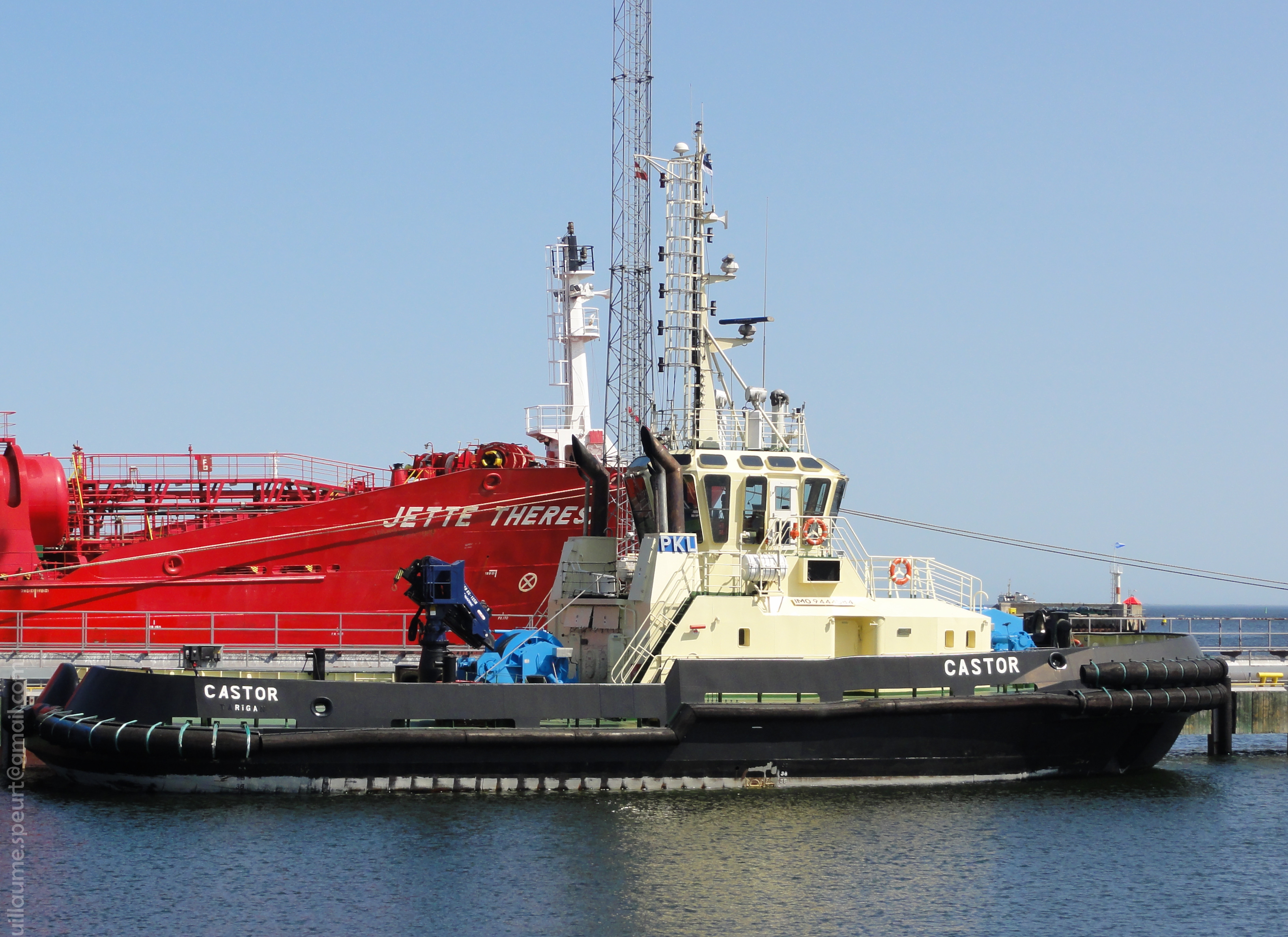 Port of Muuga, Estonia